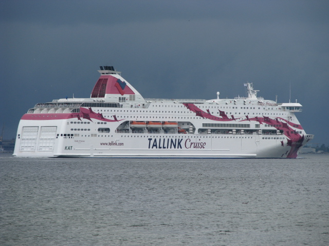 Tallink's new cruiseferry M/S Baltic Princess leaving Tallinn